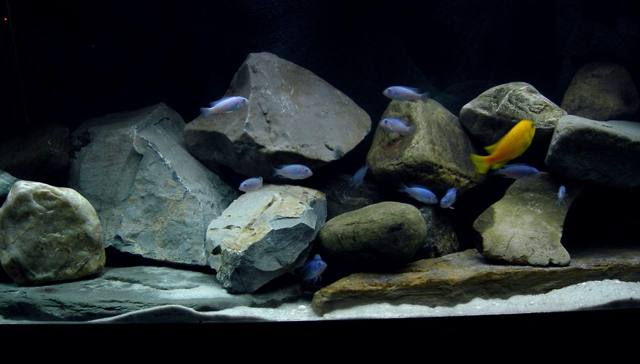 Juvinile "Pseudotropheus zebra 'Cobalt'" (Maylandia callainos) And one female Psedotropheus saulosi 75 gallon blah blah blah feel free to ask questions. By the way this makes a great desktop background.